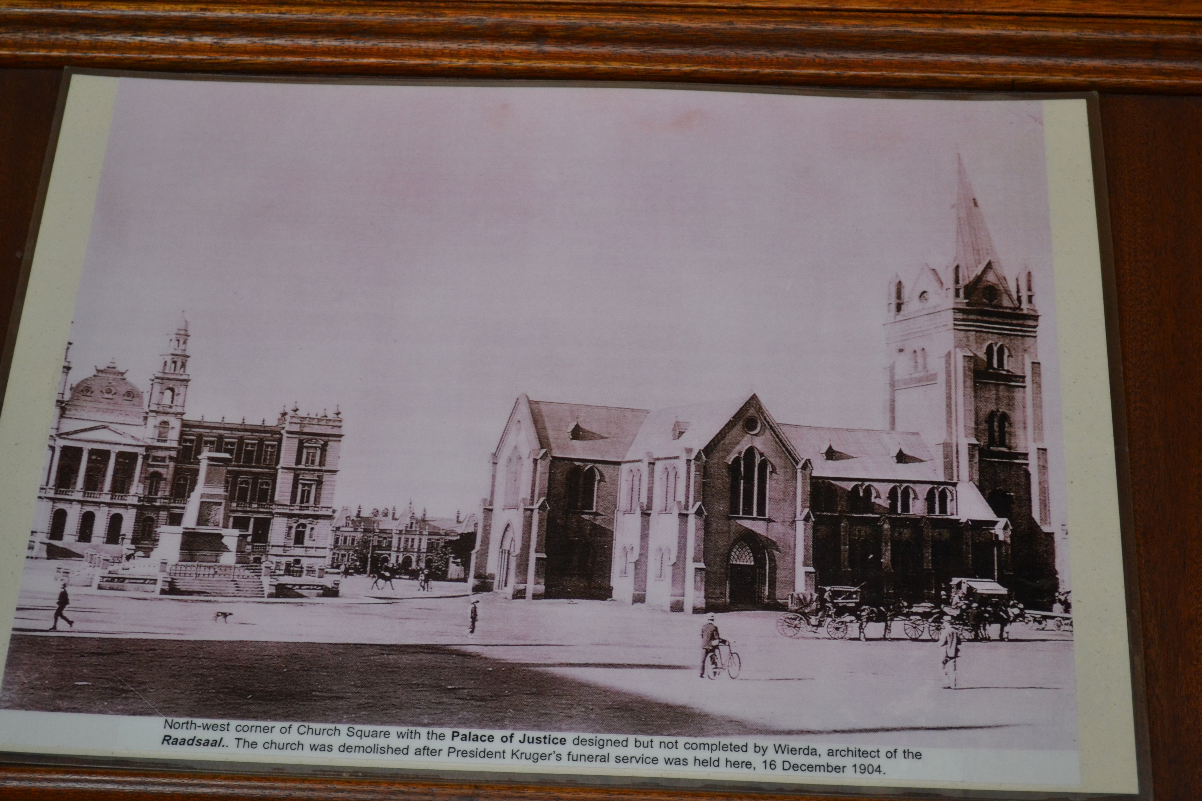 Cafe Riche Church Square Pretoria This media shows a South African Protected Site with SAHRA file reference 9/2/258/0012 .